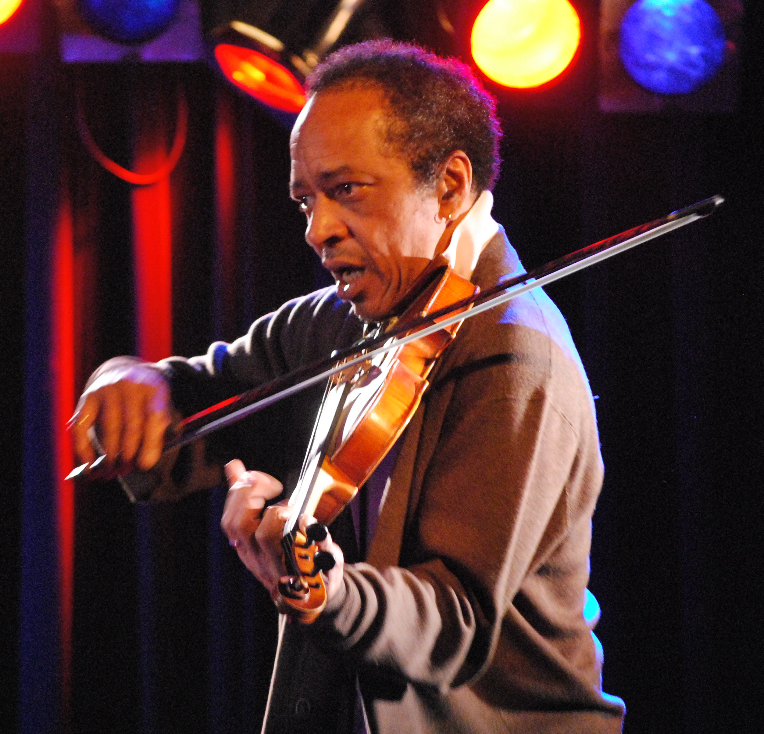 Charles Burnham, Innsbruck 2011, with James Blood Ulmer and Warren Benbow